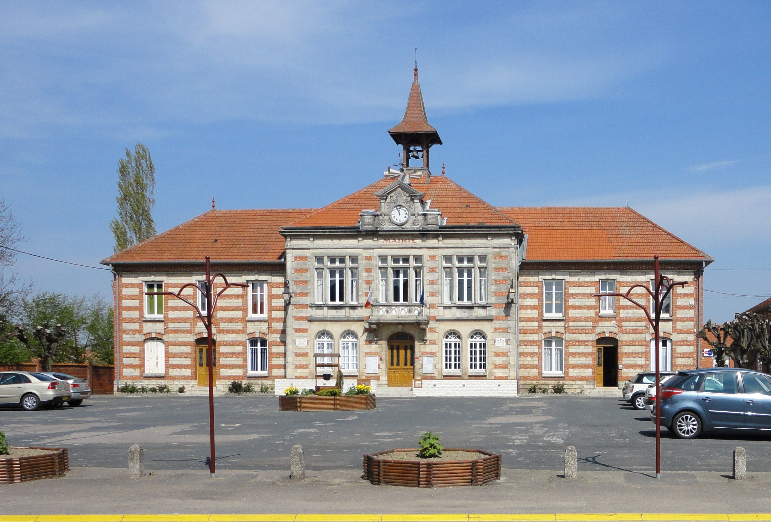 Photography of Pargny-sur-Saulx (France)